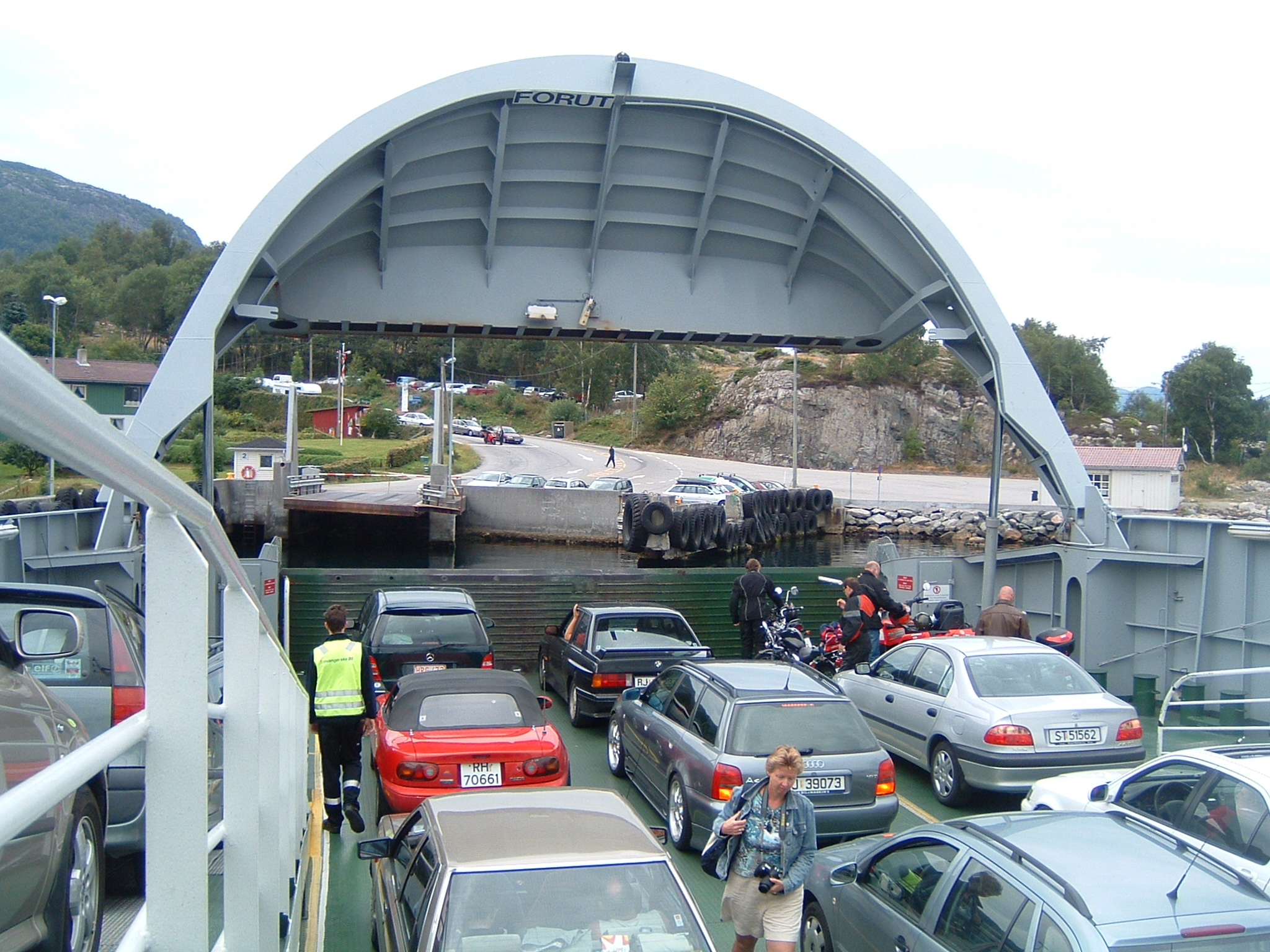 The ferry MS Høgsfjord docking at Lauvik.